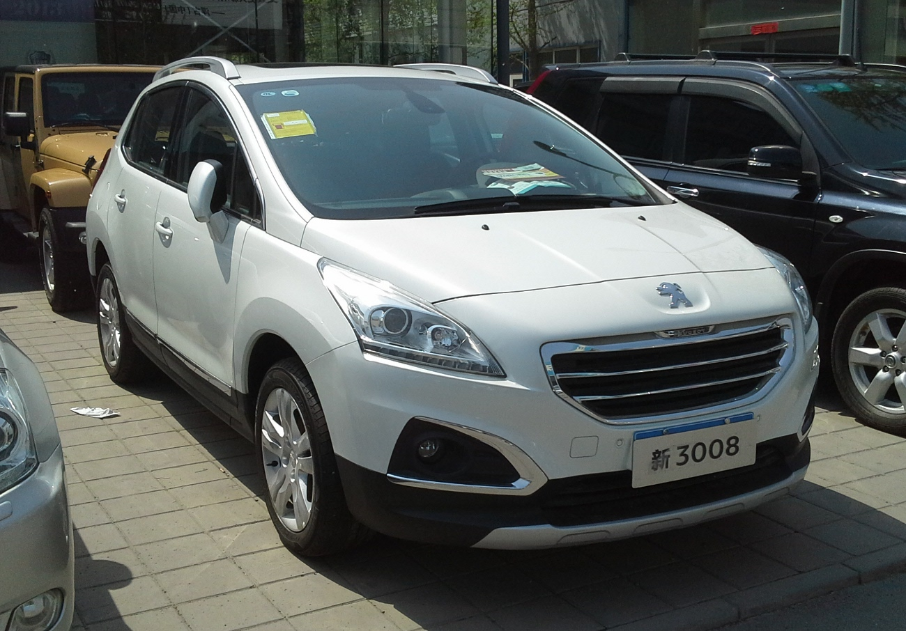 Peugeot 3008 CN photographed at the Beijing Used Car Trade Market, Beijing, China.